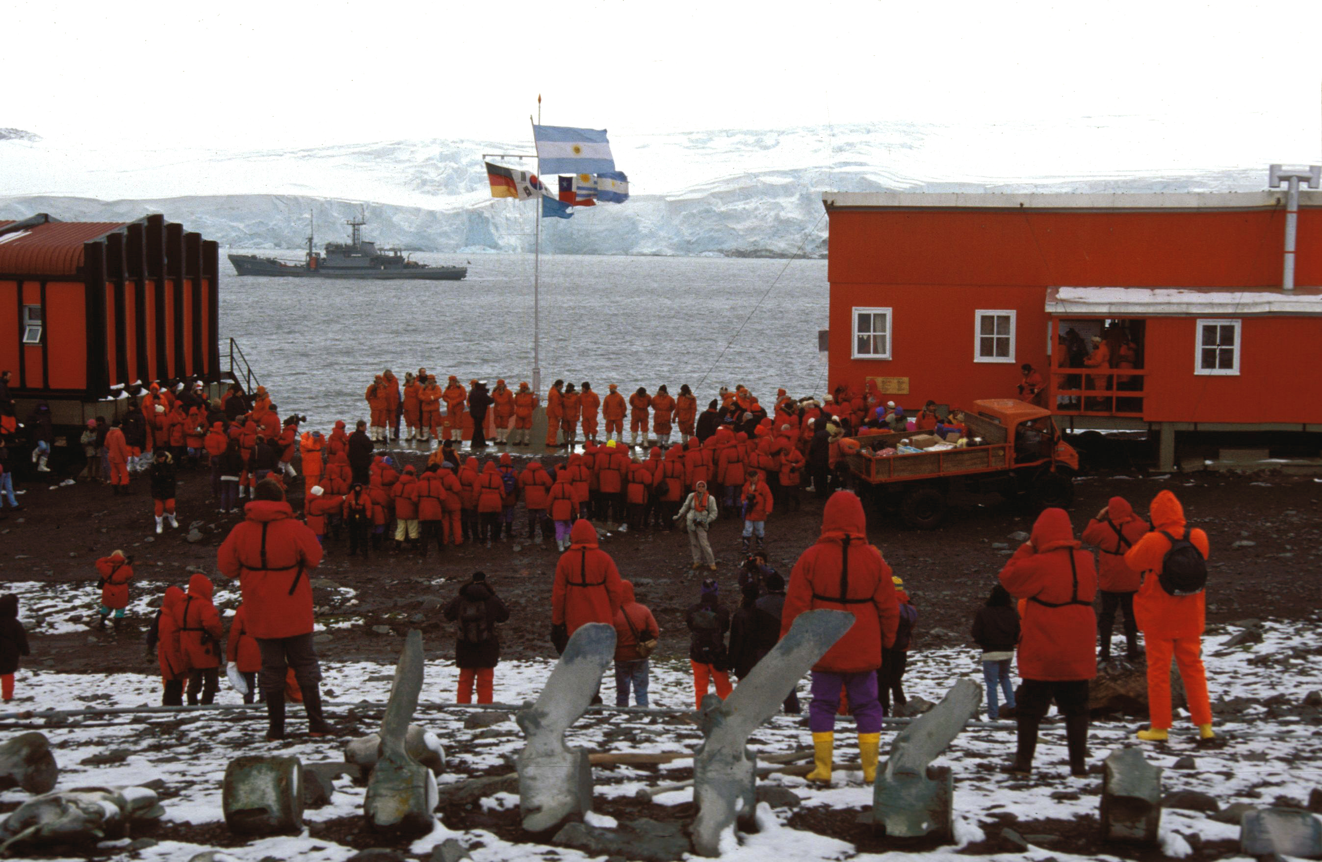 Opening of the Dallmann-Laboratory, station of the Alfred Wegener Institute on King George Island, close to station Jubany of Argentina. Red annoraks are visitors from the passenger ship BREMEN.